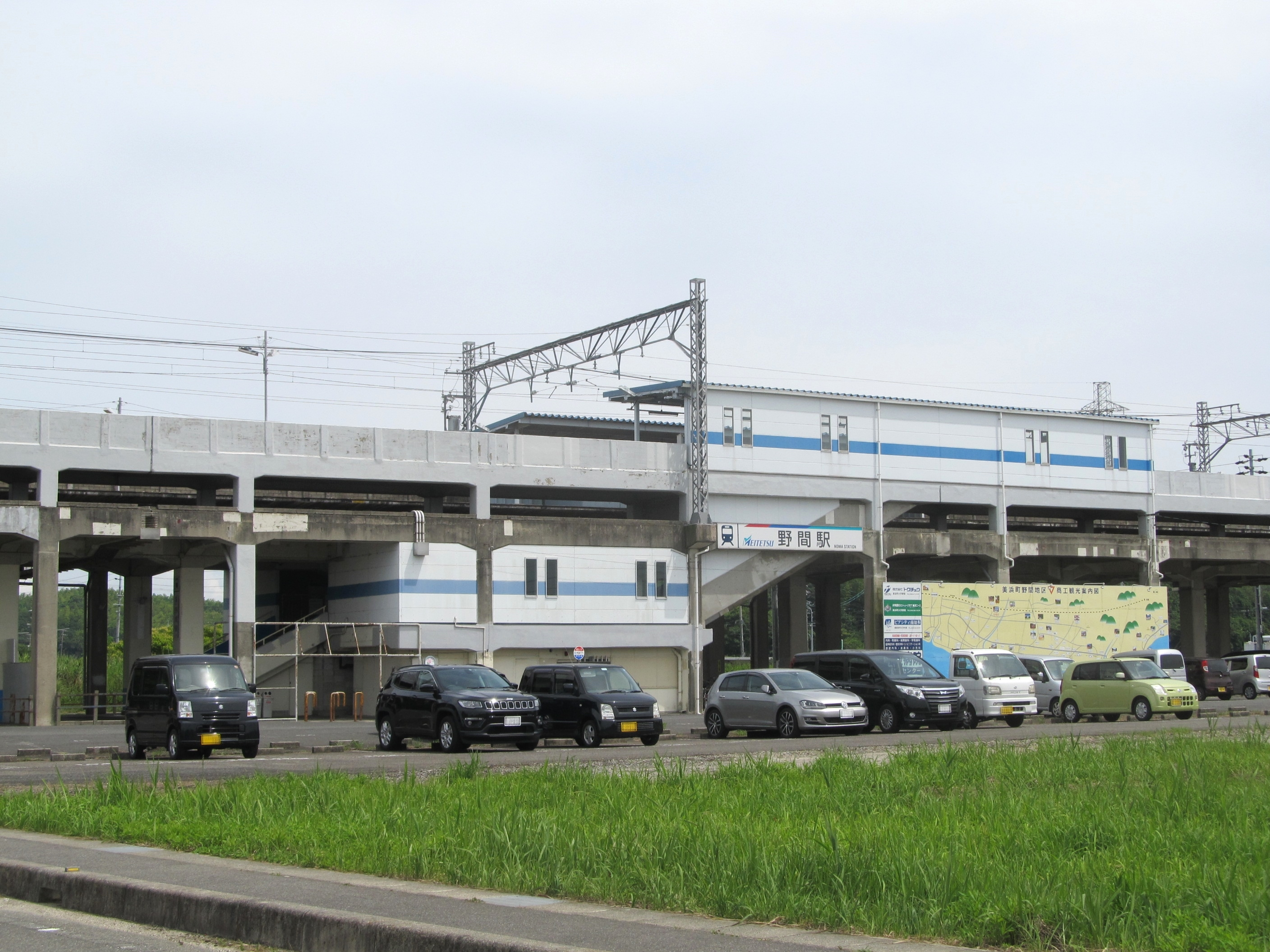 Nagoya Railroad Chita Line Noma Station